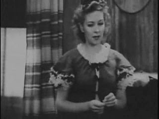 Actress Christine McIntyre in Rock River Renegades (1942), (Public Domain Film).